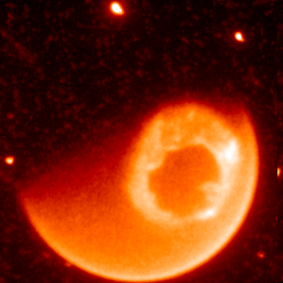 One of six images that show the ultraviolet northern aurora in false colour at various stages in its development as it was observed with the Far Ultraviolet (FUV) Wideband Imaging Camera (WIC) on board of the IMAGE satellite on July 15, 2000, 14:53 UT over a nadir point of 60.5° north, 215° east from a distance of approximately 39500 kilometres above ground during a major geomagnetic storm that occurred on July 15-16 after a coronal mass ejection.